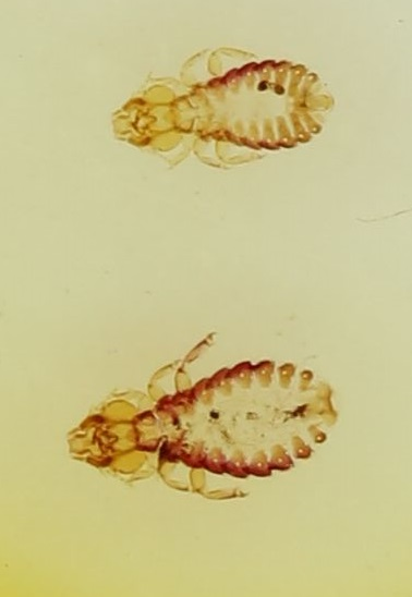 Strigiphilus garylarsoni Clayton 1990. Catalogue number: NHMUK010693502